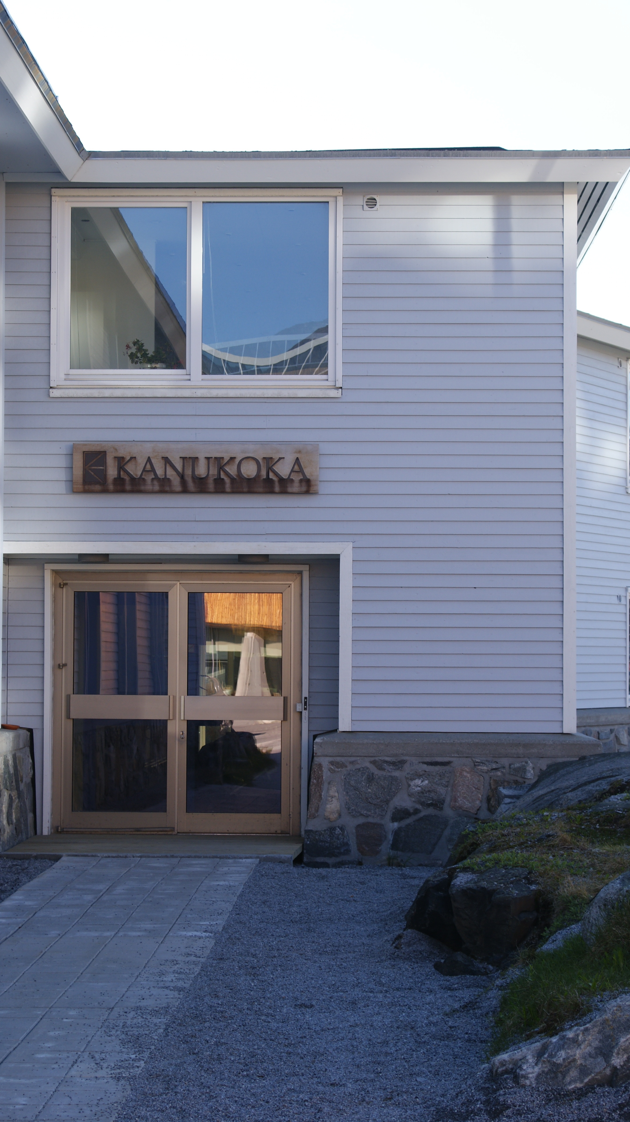 Headquarters building of KANUKOKA, (Kalaallit Nunaanni Kommunit Kattuffiannit, or the association of Greenland's municipalities) in Nuuk, Greenland.